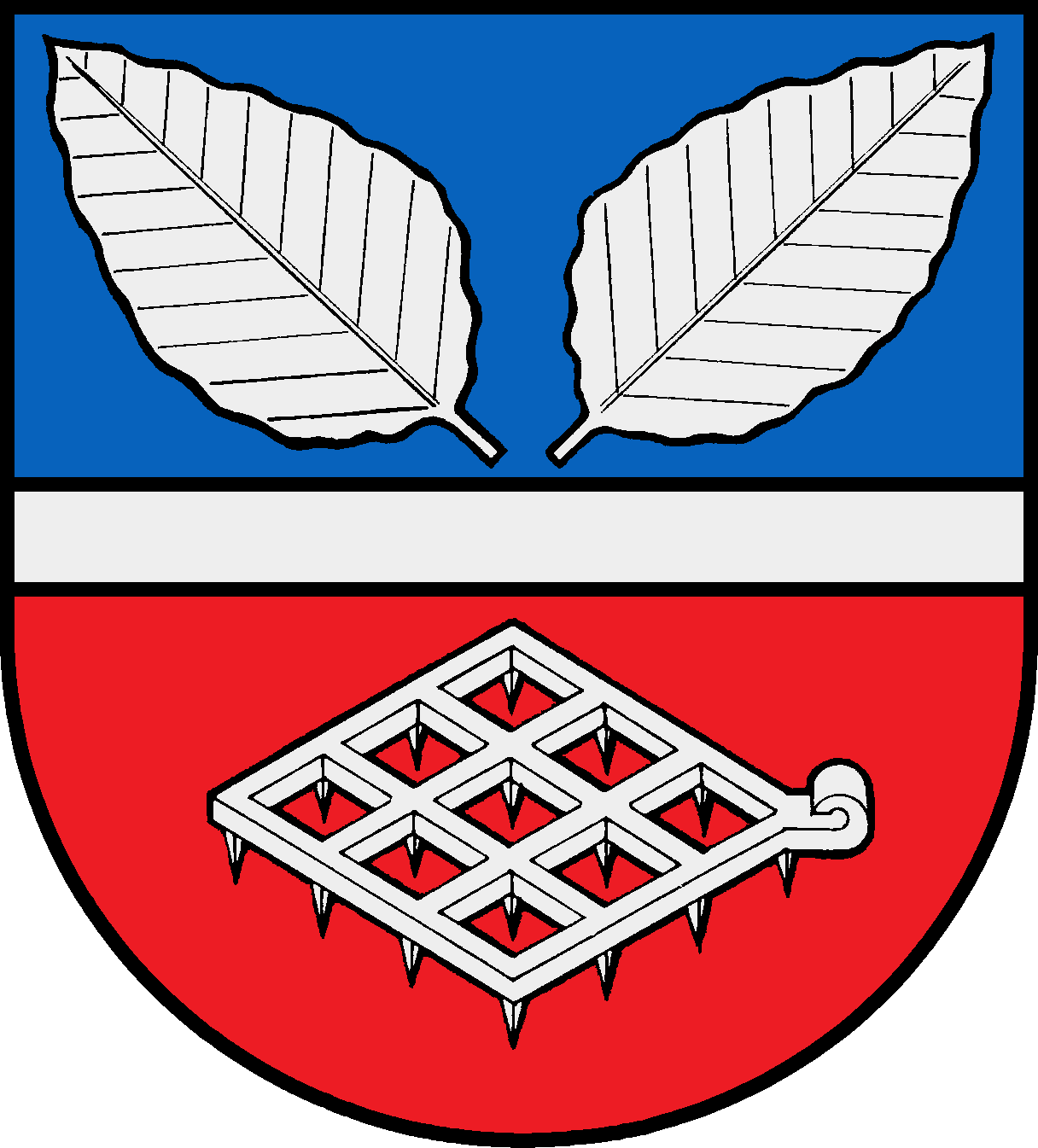 Coat of arms of the municipality Brodersdorf in Schleswig-Holstein, Germany.